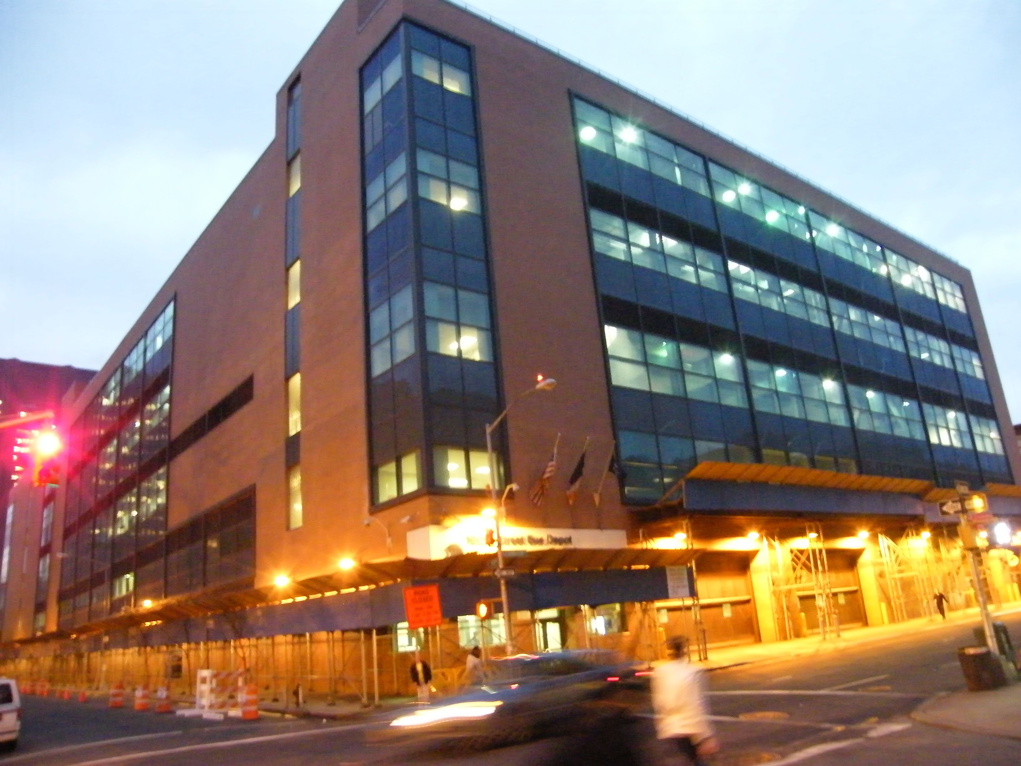 100th Street Bus Depot in New York City